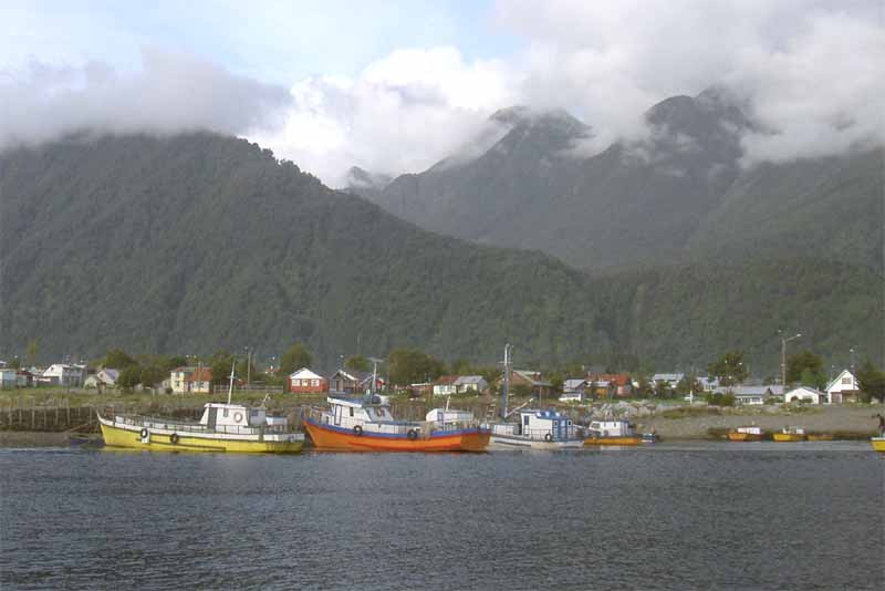 View of Chaitén, in Southern Chile (Patagonia)